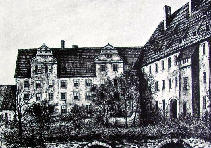 University Wittenberg (1502-1813), 19th century